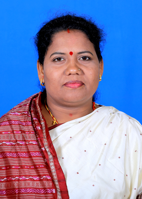 Profile Photo of Kusum Tete